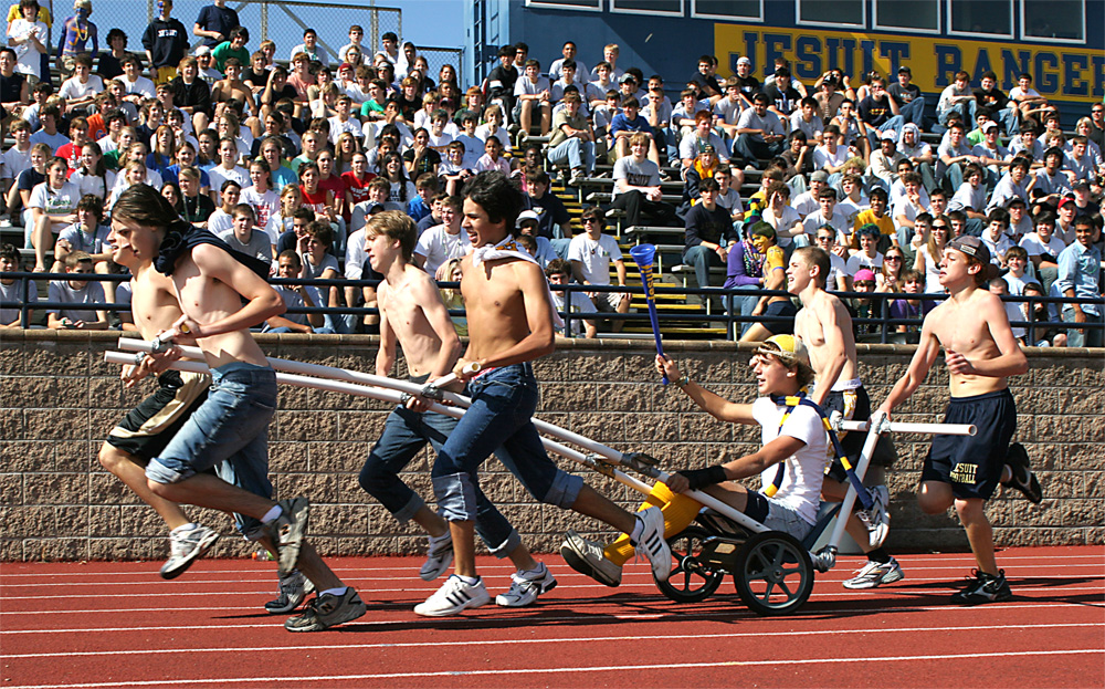 An example of a freshman chariot from Ranger Day 2005; Jesuit College Preparatory School of Dallas Photo taken by me, Michael Ho.